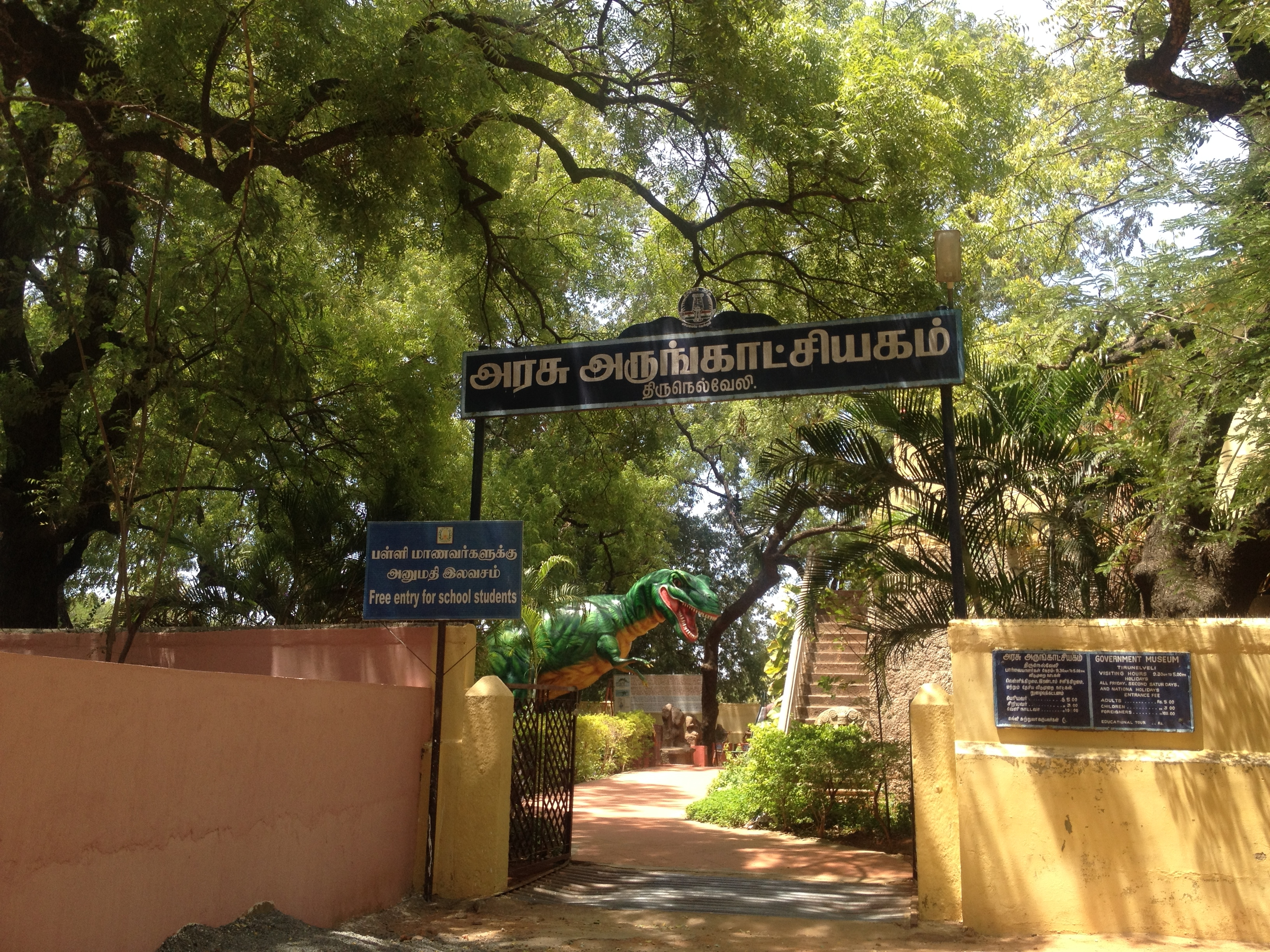 Tirunelveli Govt Museum Entrance